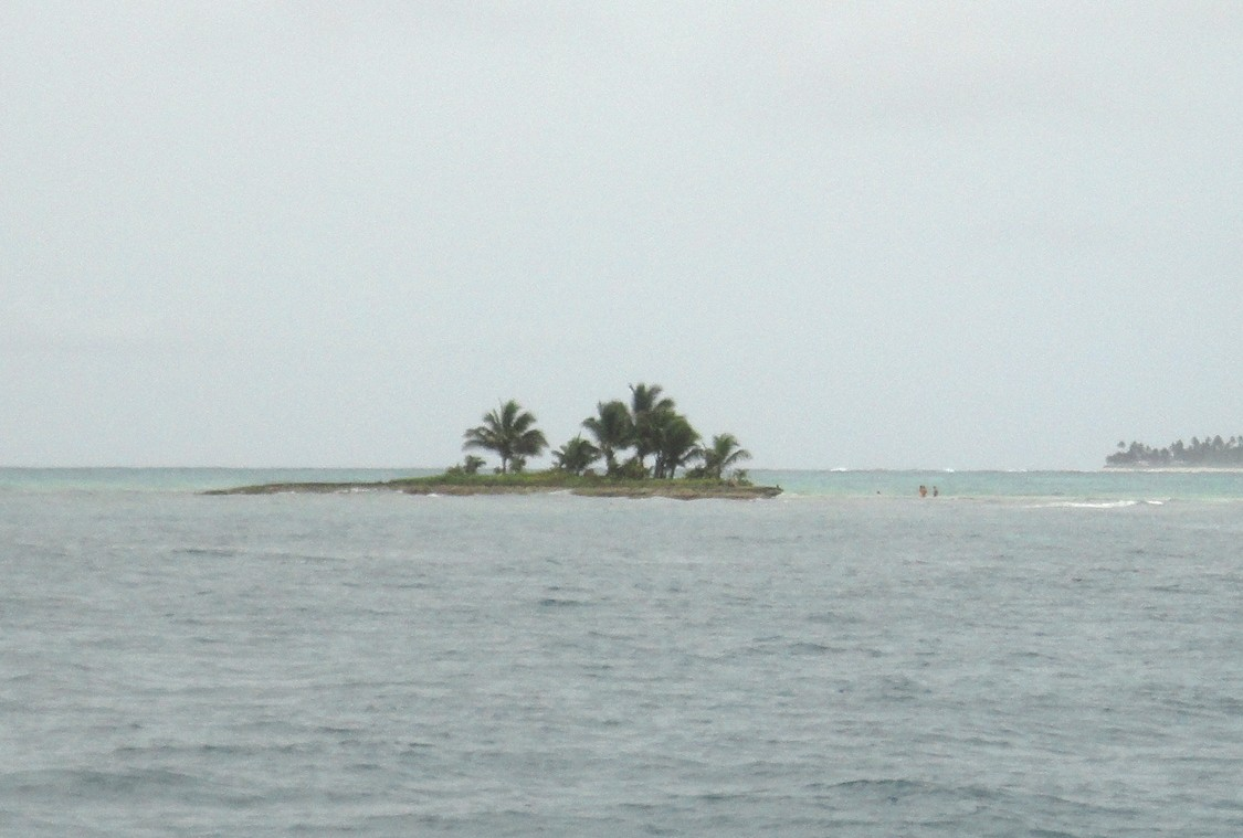 Rocky Cay (Rose Cay) from north